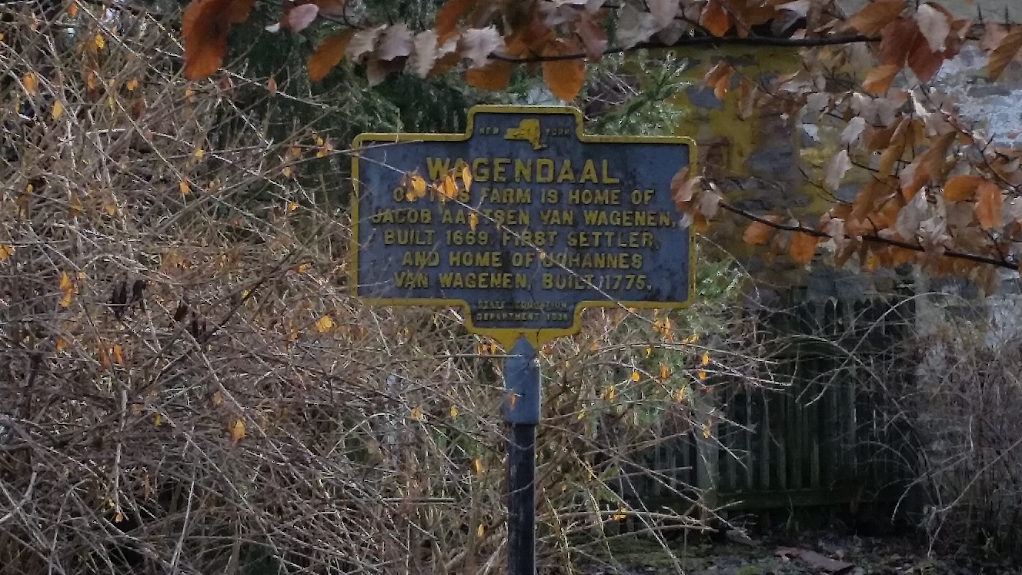 New York State historical marker for Wagendaal, the Van Wagenen home